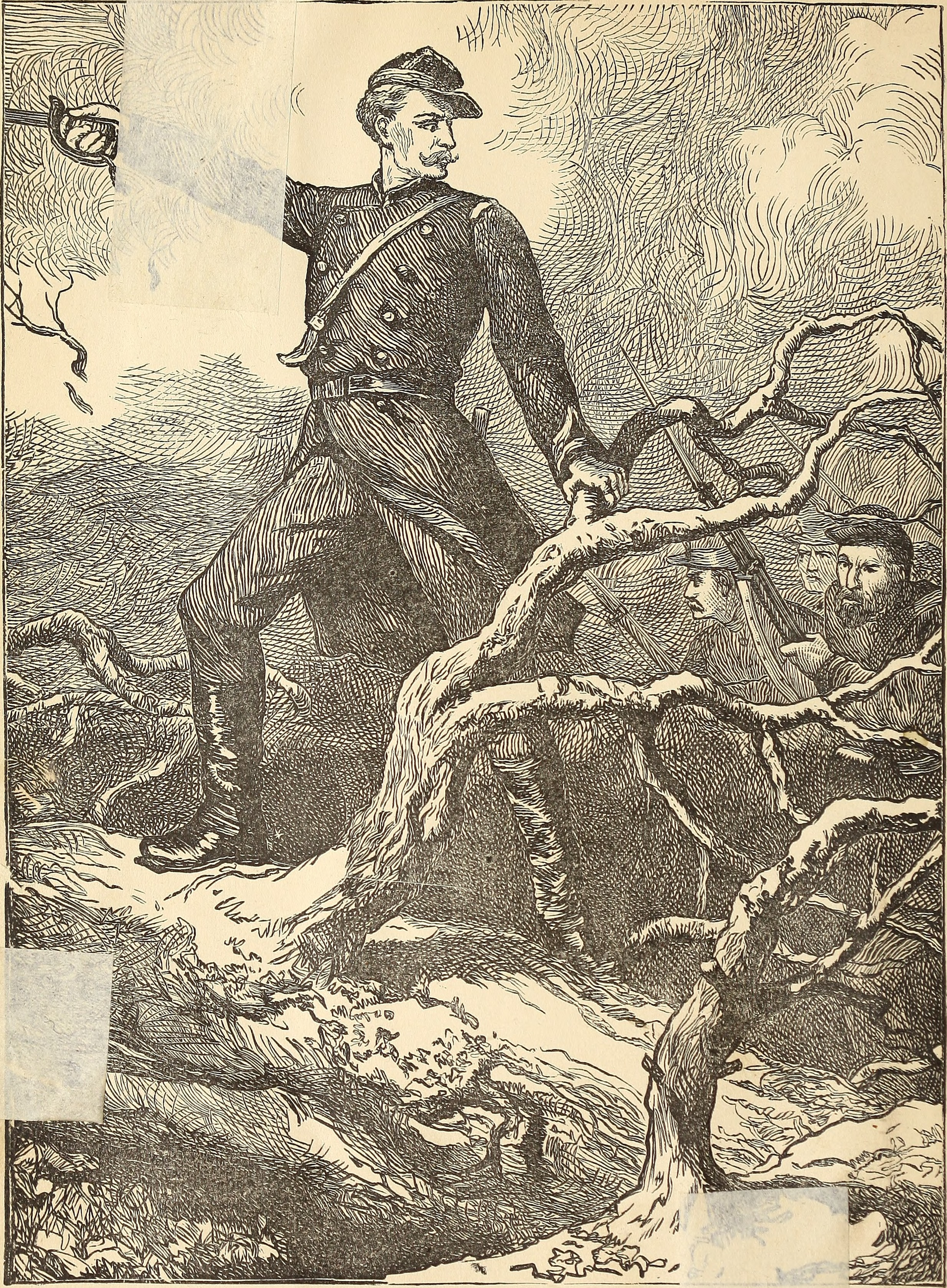 Title: The boys of '61; or, Four years of fighting. Personal observation with the army and navy, from the first battle of Bull run to the fall of Richmond Year: 1884 (1880s) Authors: Coffin, Charles Carleton, 1823-1896 Subjects: Publisher: Boston, Estes and Lauriat Text Appearing Before Image: ' Text Appearing After Image: CHARGE THROUGH AN ABATTIS. THE BOYS OF 61; OR, Four Years of Fighting PERSONAL OBSERVATION WITH THEARMY AND NAVY, FROM THE FIRST BATTLE OF BULL RUN TO THEFALL OF RICHMOND. BY CHARLES CARLETON COFFIN, AUTHOR OF THE BOYS OF 76, THE STORY OF LIBERTY, WINNING HIS WAY, MY DAYS AND NIGHTS ON THE BATTLEFIELD, FOLLOWING THE FLAG, OUR NEW WAY ROUND THE WORLD, ETC. ILLUSTRATED. BOSTON: PUBLISHED BY ESTES AND LAUR1AT, 301-305 Washington Street. 1884. Copyright, 1881, byESTES AND LAURIAT. Entered according to Act of Congress, in the year 1866, by CHARLES CARLETON COFFIN, in the Clerks Office of the District Court of the District of Massachusetts., PREFATORY NOTE. This volume, though historic, is not a history of the Rebel-lion, but a record of personal observations and experiencesduring the war, with an occasional look at affairs in general togive clearness to the narrative. The time has not arrived forthe writing of an impartial history of the conflict betweenSlavery and Freedom in the United Stboysof61orfoury00coff